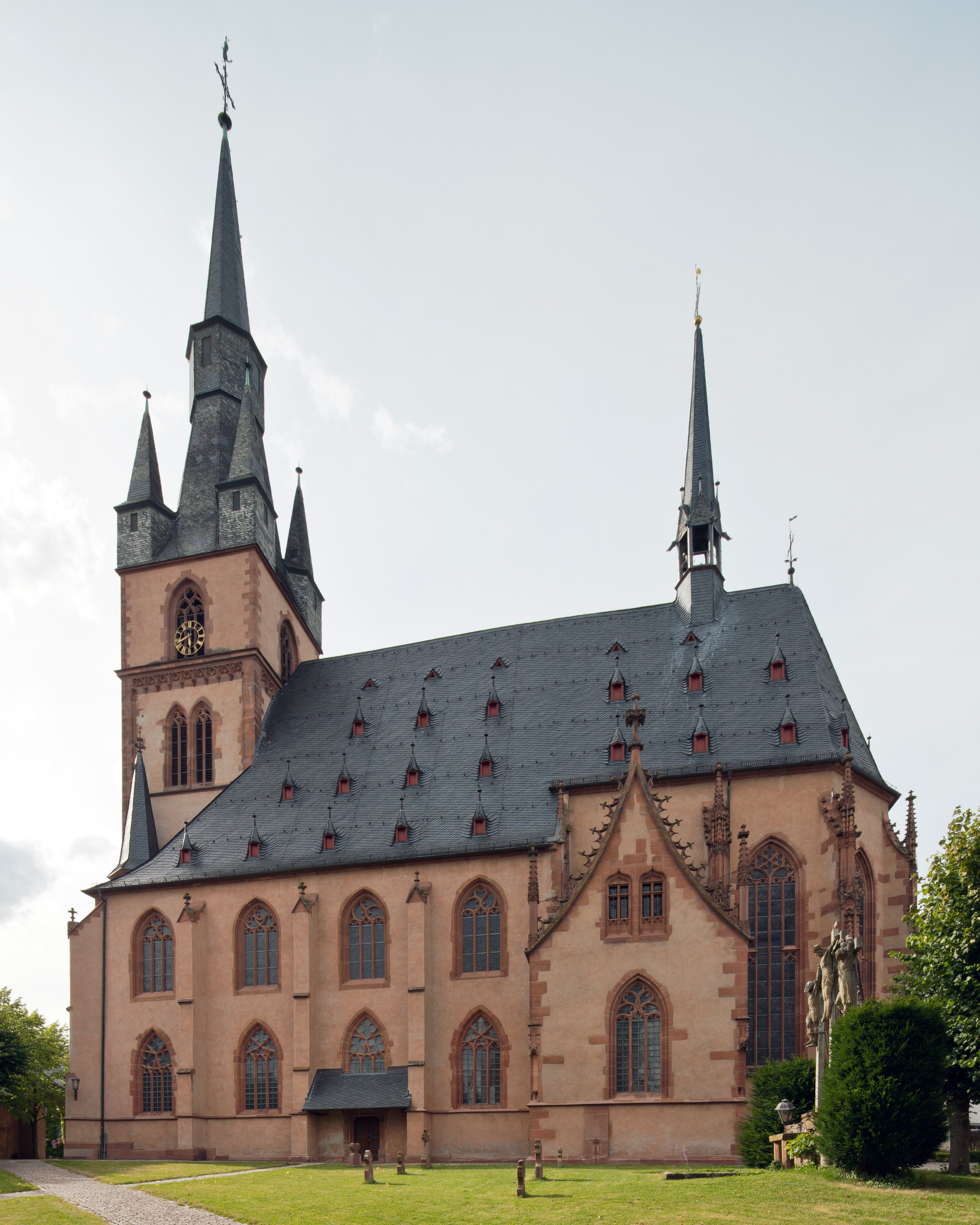 Kiedrich: St. Valentinus (St. Valentine) as seen from the southeast